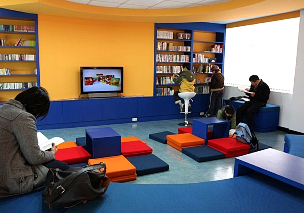 Alliance française in Taiwan Media library audiovisual corner